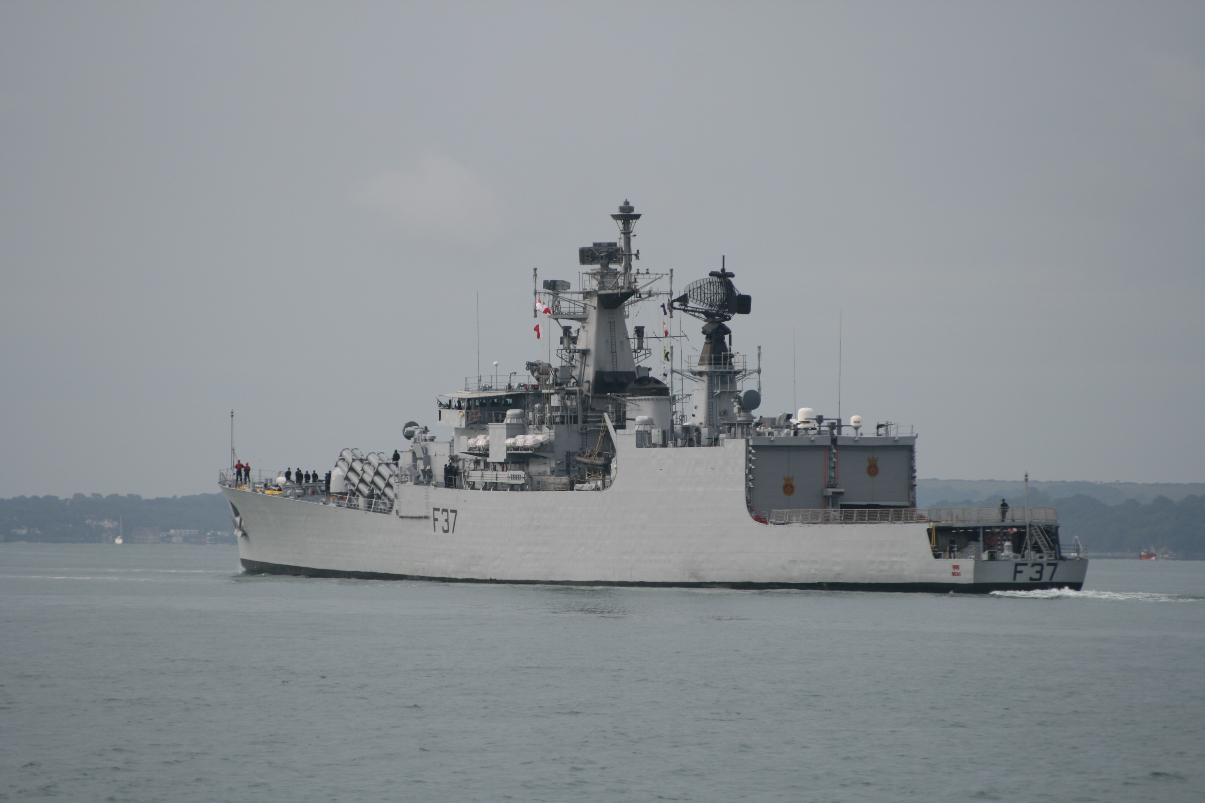 INS Beas, an Indian Navy Brahmaputra class frigate (a modified UK Leander class) departing Portsmouth Naval Base, UK, 20th June 2009. Image uploaded by me User:George.Hutchinson from a photograph taken by and supplied by Brian Burnell. Wikipedia editors are reminded that the copyright remains with the photographer, and that the terms of the Creative Commons licence; that allow editors to reuse this image apply to Wikipedia editors also, as they do to other re-users of this image. Breaches of the licence terms are not only unlawful, but are also antisocial, in that breaches discourage photographers from making their images freely available to everyone without payment. Wikipedia re-users are also reminded of the license terms that derivatives of this image should not imply that the adaptation is endorsed or approved by the author or copyright holder. Neither should derivatives be presented as the creation of the author or copyright holder, while clearly stating that the adaptation is a derivative of the original. Attribution online should be in this format Brian Burnell. On the printed page, a simpler form is acceptable - example: "Image: Brian Burnell". Non-Wikipedia users are requested to advise Brian Burnell of its use other than on Wikipedia.